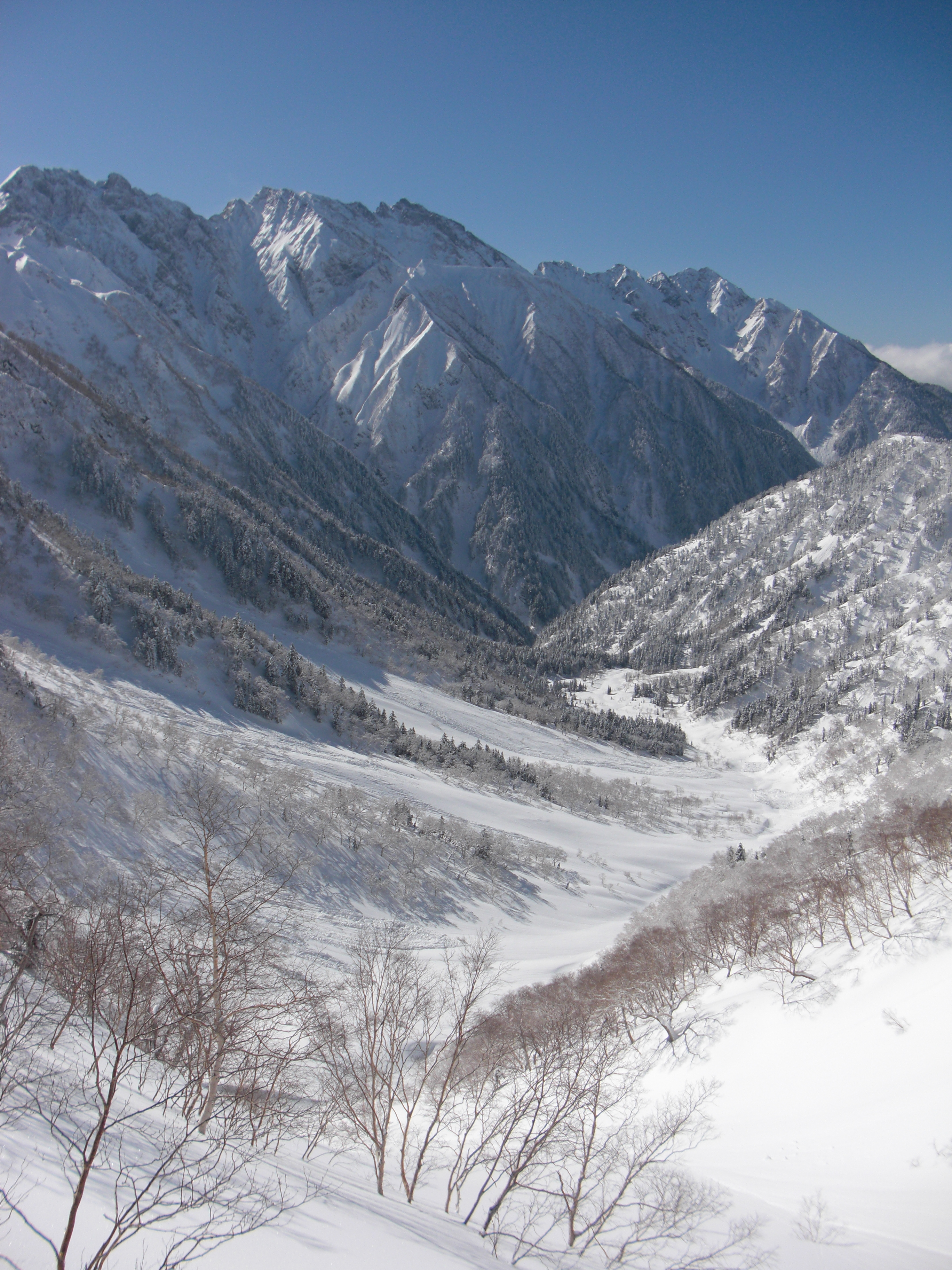 Hidasawa and Takidani in snow from Nakazaki Ridge in Hida Mountains, Japan.